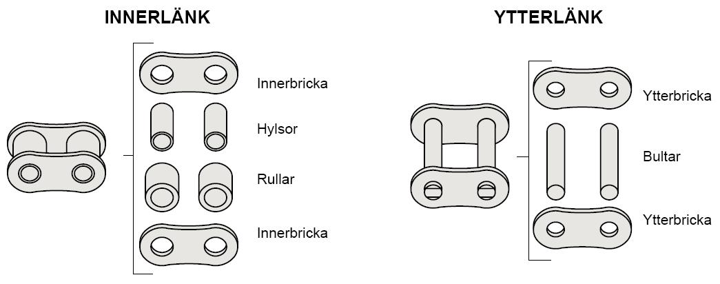 Components of a bicycle type chain (captions in Swedish)